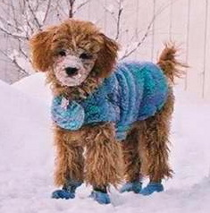 SlimVirgin's poodle